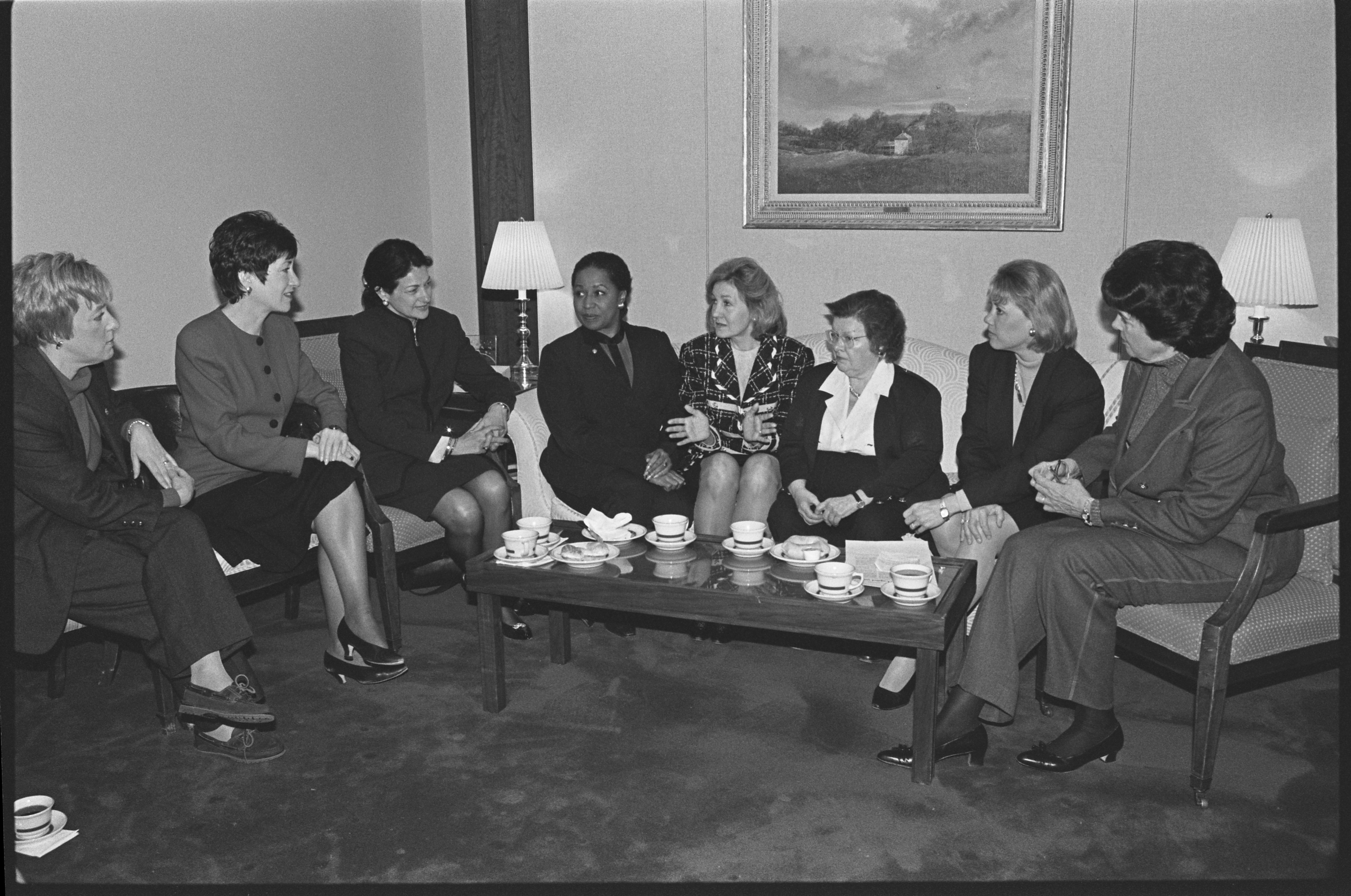 Women senators seated around a coffee table (left to right): Patty Murray, Susan Collins, Olympia Snowe, Carol Moseley-Braun, Kay Bailey Hutchison, Barbara Mikulski, Mary Landrieu and Dianne Feinstein